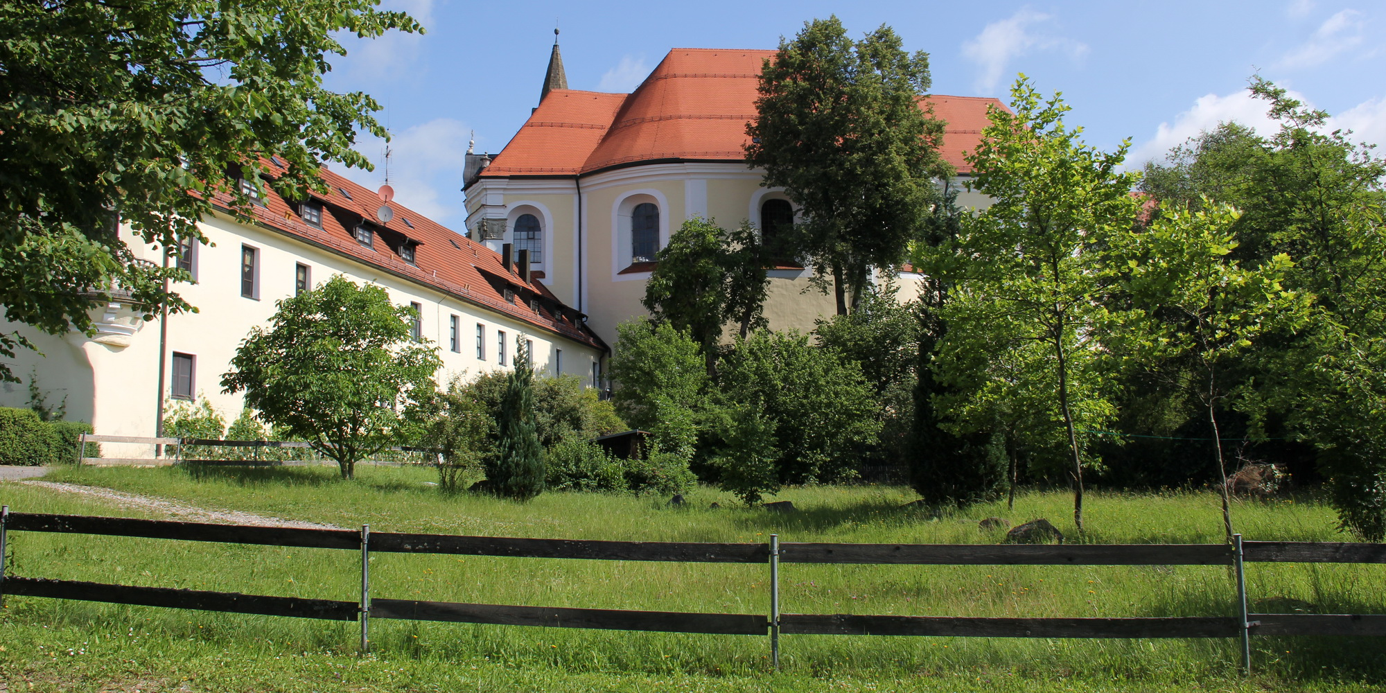 Frauenzell Abbey Native nameKloster FrauenzellLocationBrennberg, Upper Palatinate, GermanyCoordinates49° 03′ 20.52″ N, 12° 22′ 14.16″ E Established14th century date QS:P,+1350-00-00T00:00:00Z/7Authority control : Q610507 VIAF: 249403003 GND: 4630703-5 institution QS:P195,Q610507